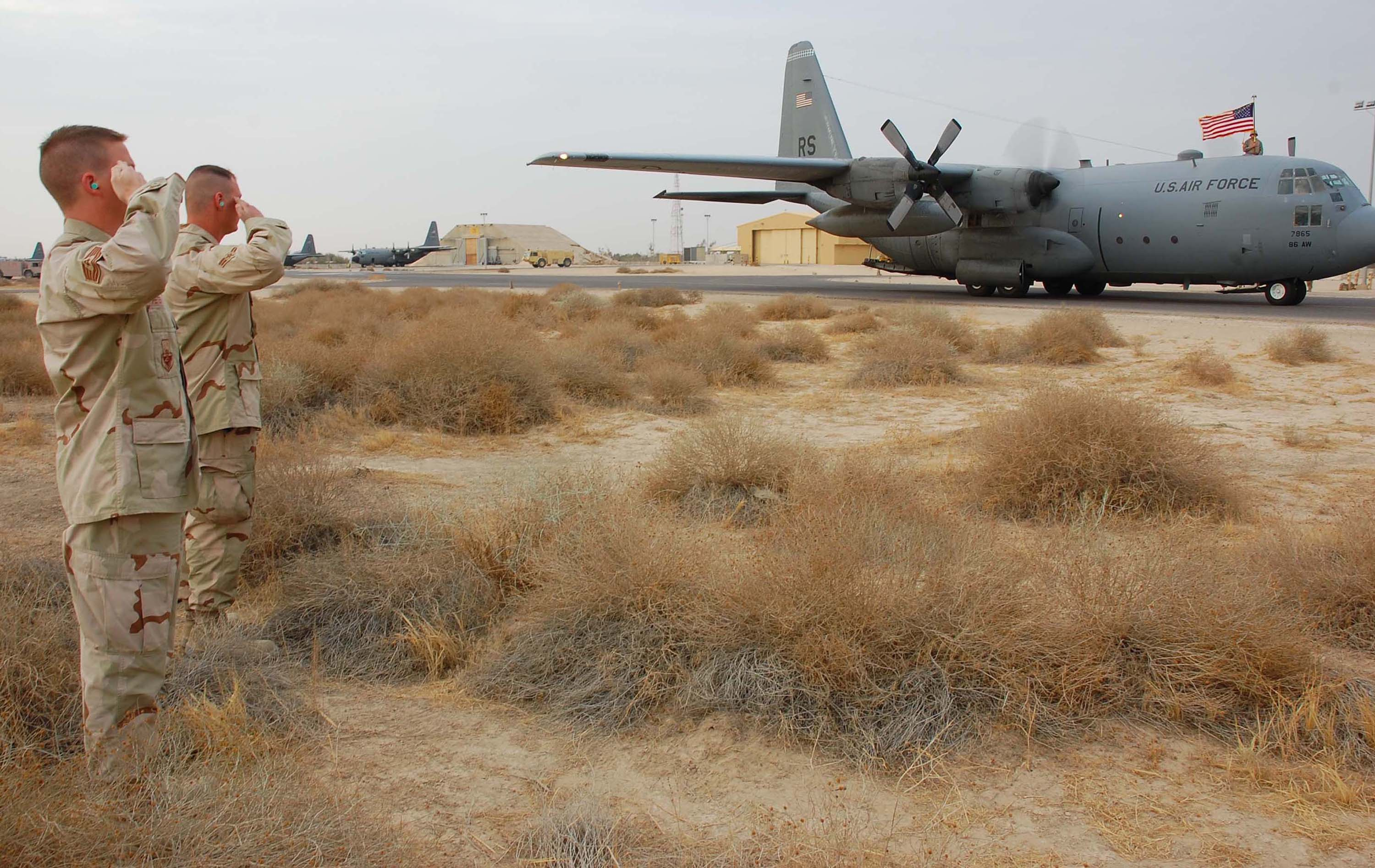 SOUTHWEST ASIA -- Airmen from the 386th Air Expeditionary Wing proudly render a final salute to C-130E aircraft, tail number 63-7865, from Ramstein AB, Germany, at Ali Al Salem AB, Kuwait Nov. 13. The aircraft had just flown its last combat mission and will be flown to the AMARC facility at Davis-Monthan AFB, Ariz., where it will be laid to rest at the "boneyard." The C-130E became an honorary purple heart recipient in June of 1972 for damages sustained from mortar fire in Vietnam.